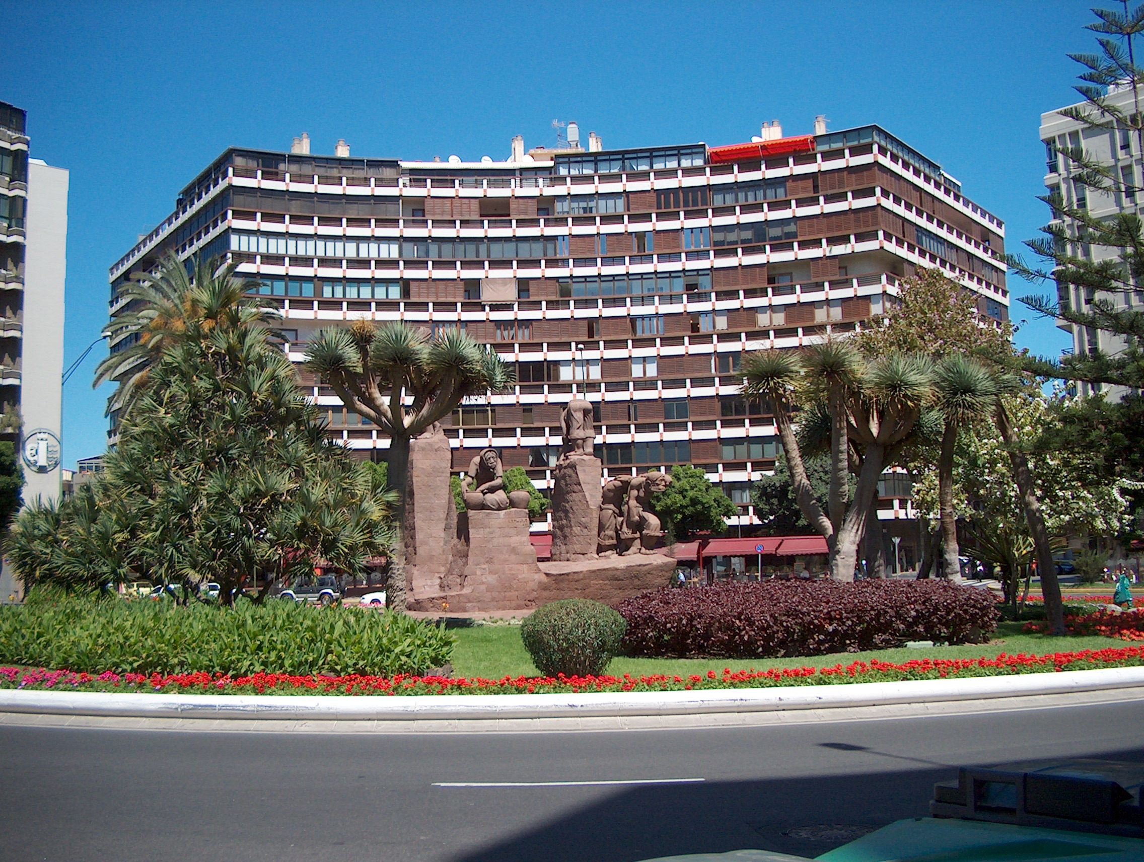 Spain Square, Las Palmas de Gran Canaria (Gran Canaria), Canary Islands. Spain.